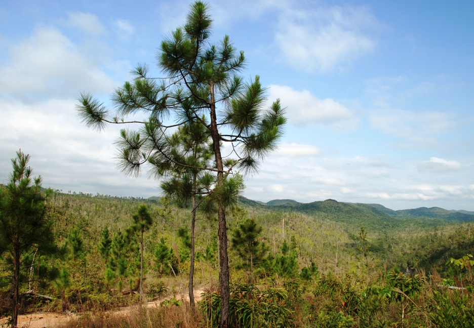 Pinus hondurensis (Honduras Pine), in the Mountain Pine Ridge Forest Reserve, Belize.